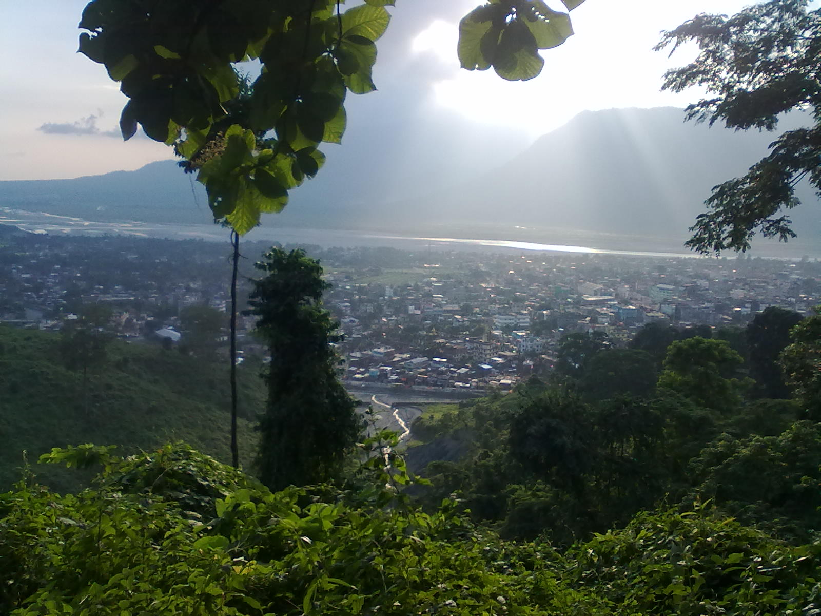 Avinash jammar 06